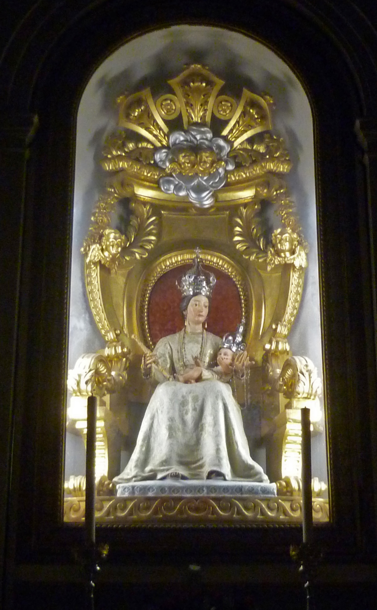 "Our Lady of the Rosary" in the Church of S. Nicolò e S. Severo, Bardolino, Italy